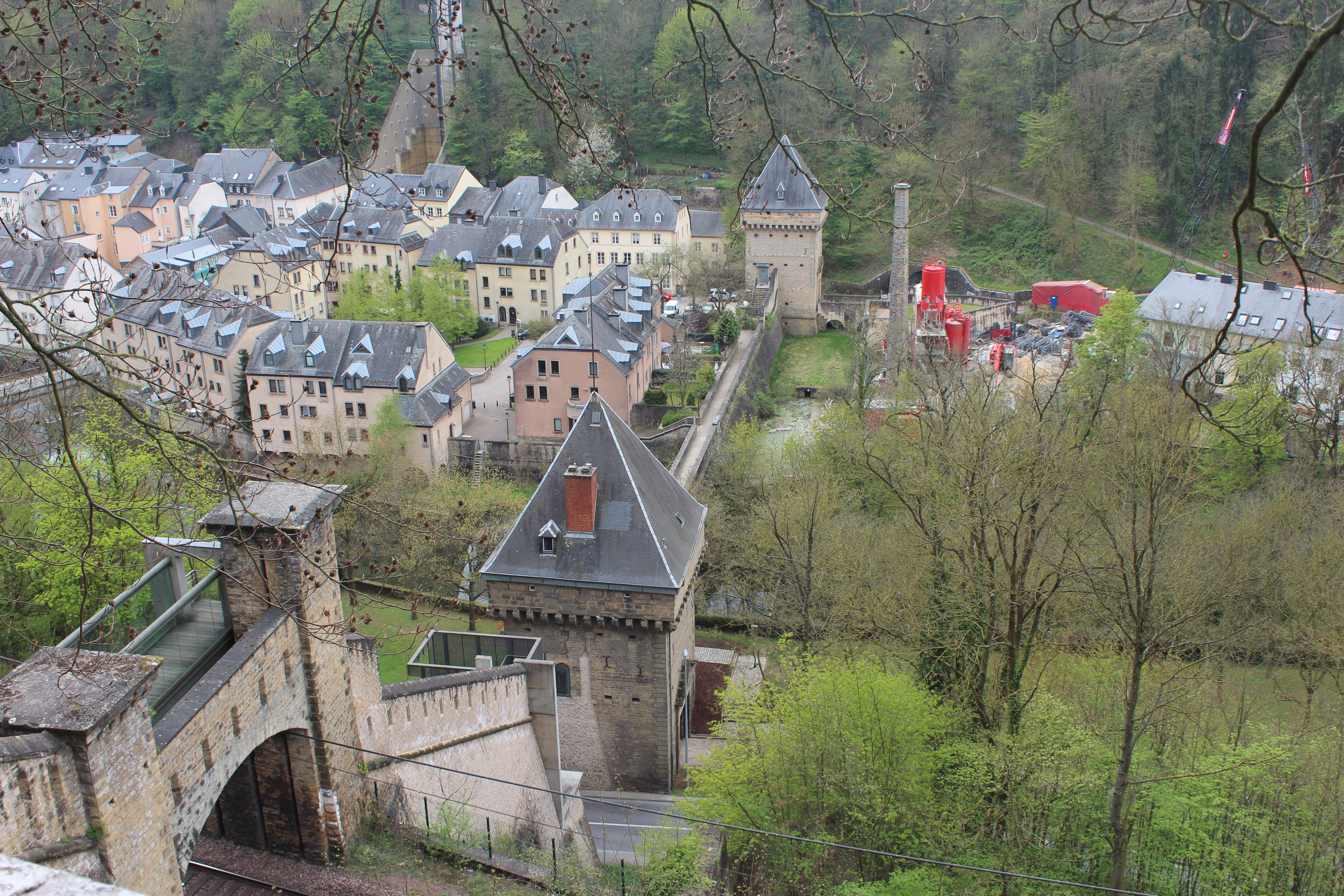 Part of the city wall in Luxembourg city, including the bridge over the Alzette river, called "Béinchen", between the two towers/gates (Porte d'Eich, Porte des Bons-malades - Eecher Paart, Sichepaart).